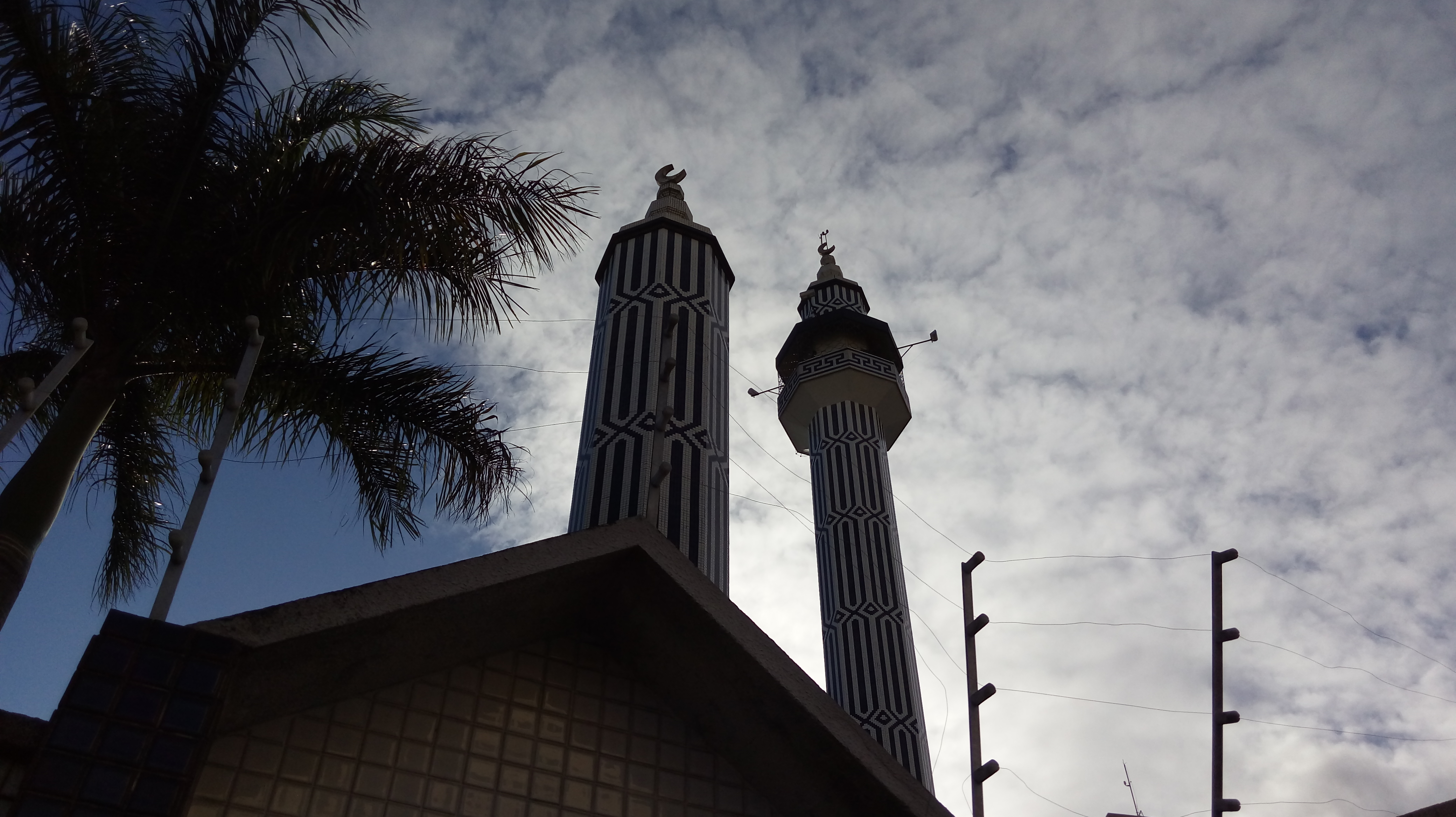 Mosque in Mogi das Cruzes, Brazil.